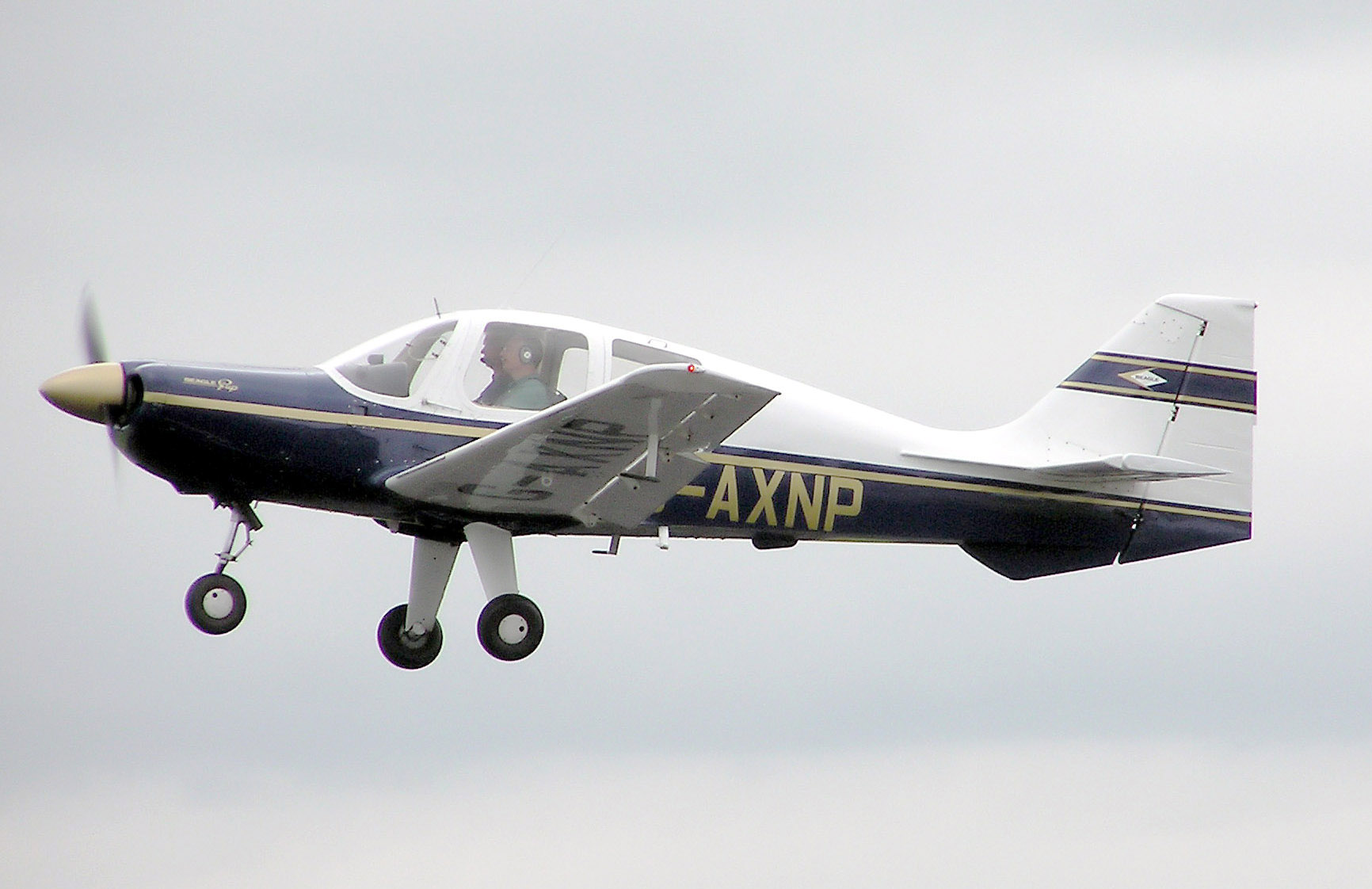 Beagle Pup B121 Series 2 at Kemble Airfield, Gloucestershire, England. Built in 1969. Photographed by Adrian Pingstone in July 2005 and released to the public domain.